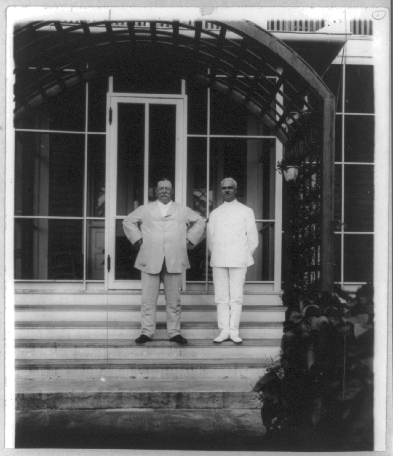 Title: Wm. H. Taft [& Col. Goethals] Physical description: 1 photographic print. Notes: Title and other information transcribed from caption card and item.; Frank and Frances Carpenter Collection (Library of Congress).; LOT subdivision subject: Panama.